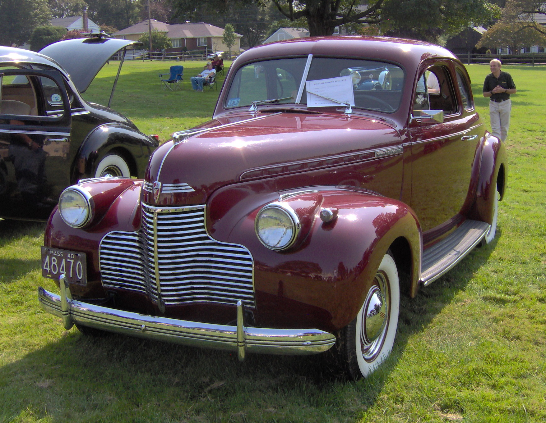 1940 Chevrolet KB Master 85 business coupe